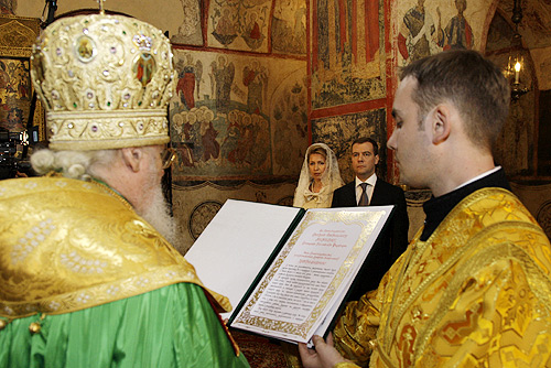 MOSCOW. In the Moscow Kremlin’s Annunciation Cathedral.